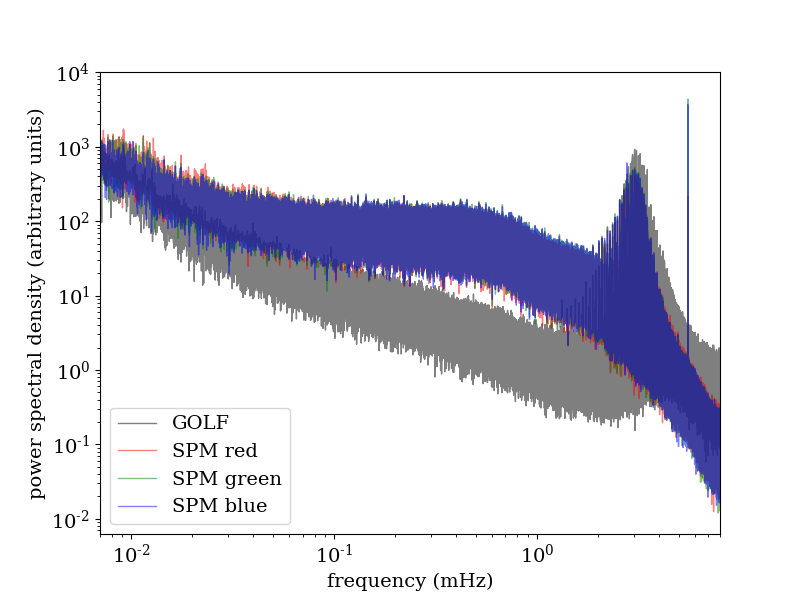 Power spectrum of the Sun using data from instruments aboard the Solar and Heliospheric Observatory on double-logarithmic axes. The three passbands of the VIRGO/SPM instrument show nearly the same power spectrum. The line-of-sight velocity observations from GOLF are less sensitive to the red noise produced by granulation. All the datasets clearly show the oscillation modes around 3mHz. This plot was produced with this Python script with the command python3 sun_combined_power_spectra.py golf spm_red spm_green spm_blue -s 10 --legend --logx --logy -x 0.007 8.0 -a 0.5